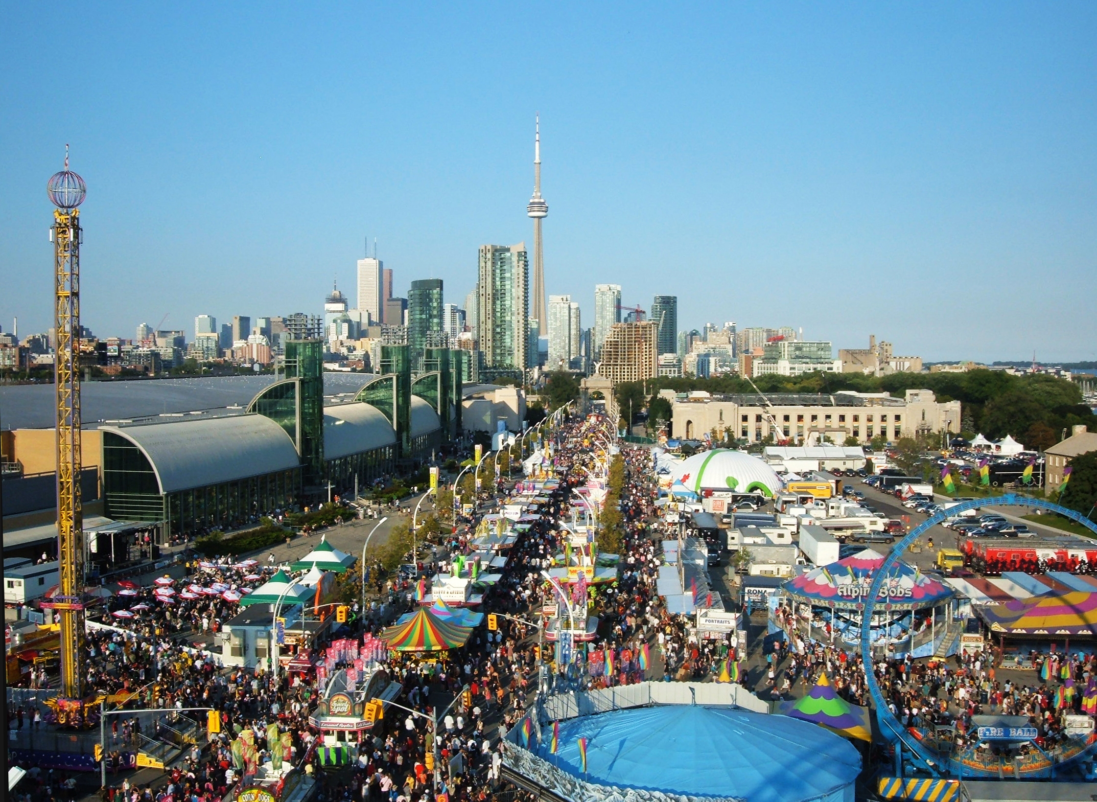 City of Toronto and Exhibition Place from the CNE Ferris Wheel